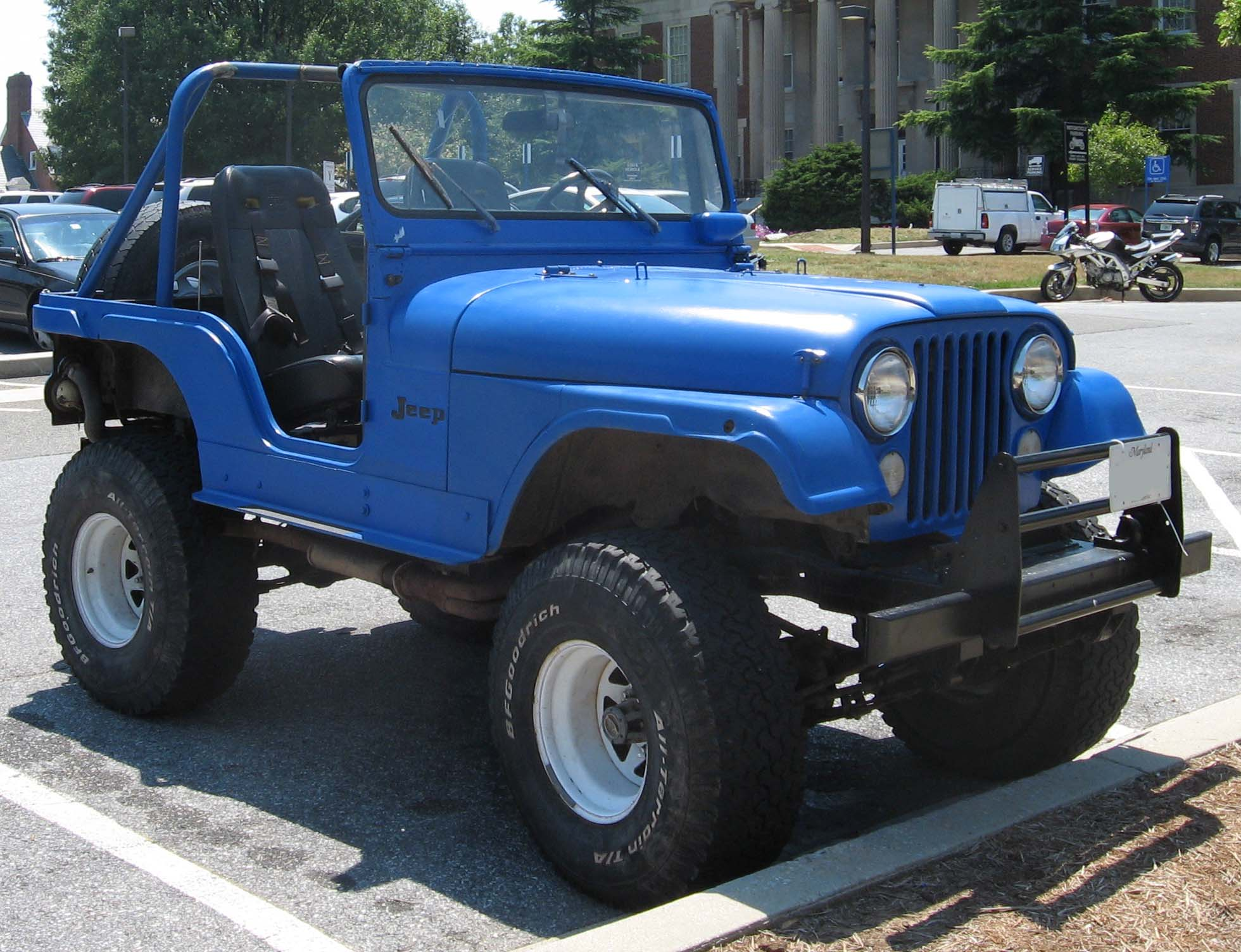 Jeep CJ photographed in USA.